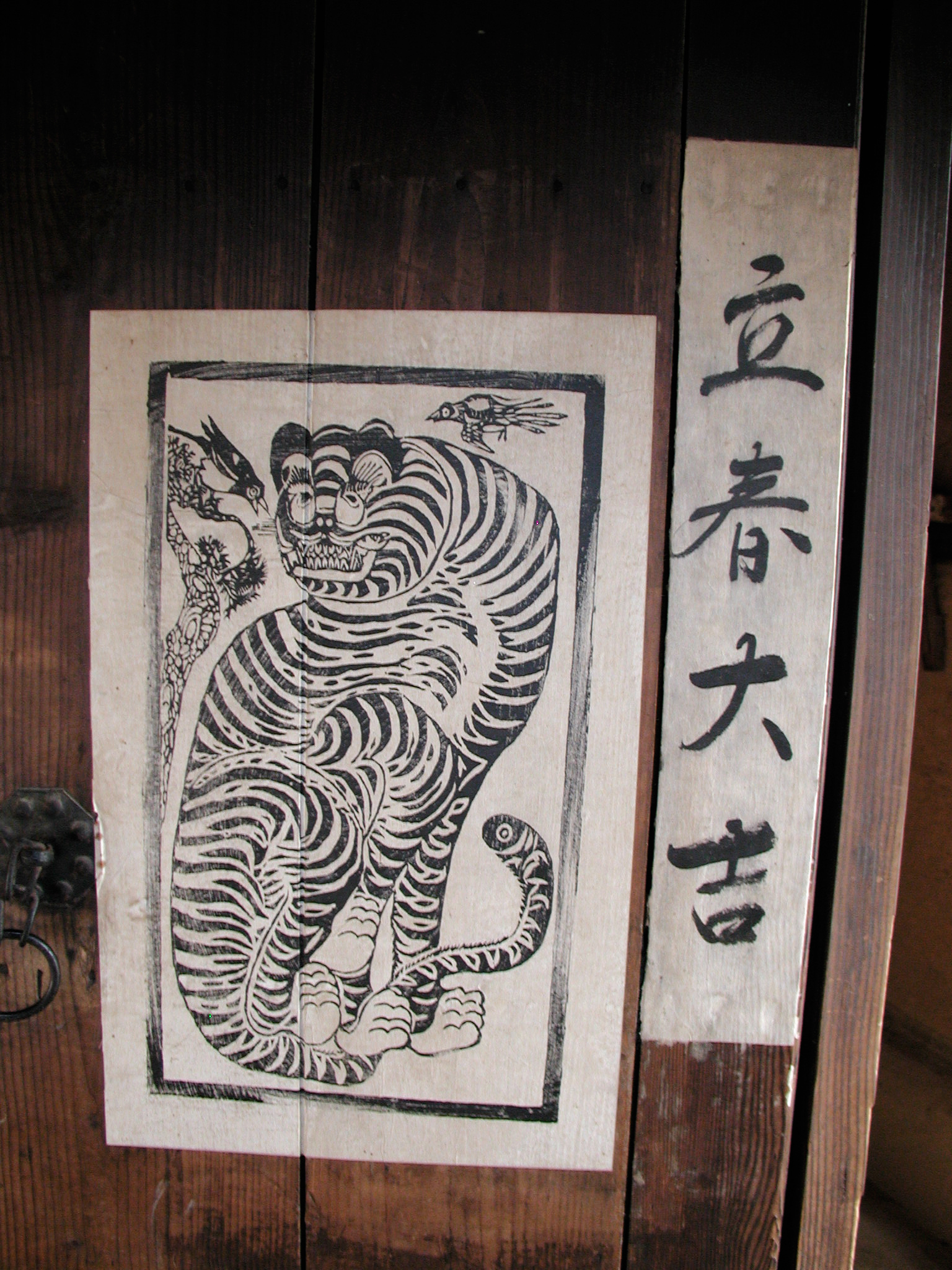 On a door in the Korean Folk Village in Yongin, Gyeonggi Province, S. Korea: A wood-printed minhwa (folk painting) of a tiger. The calligraphy is a Spring Festival (New Year) poster (春貼). Written in hanja (Sino-Korean characters), it reads “立春大吉”, meaning "great luck for the beginning of spring (for the new year)".